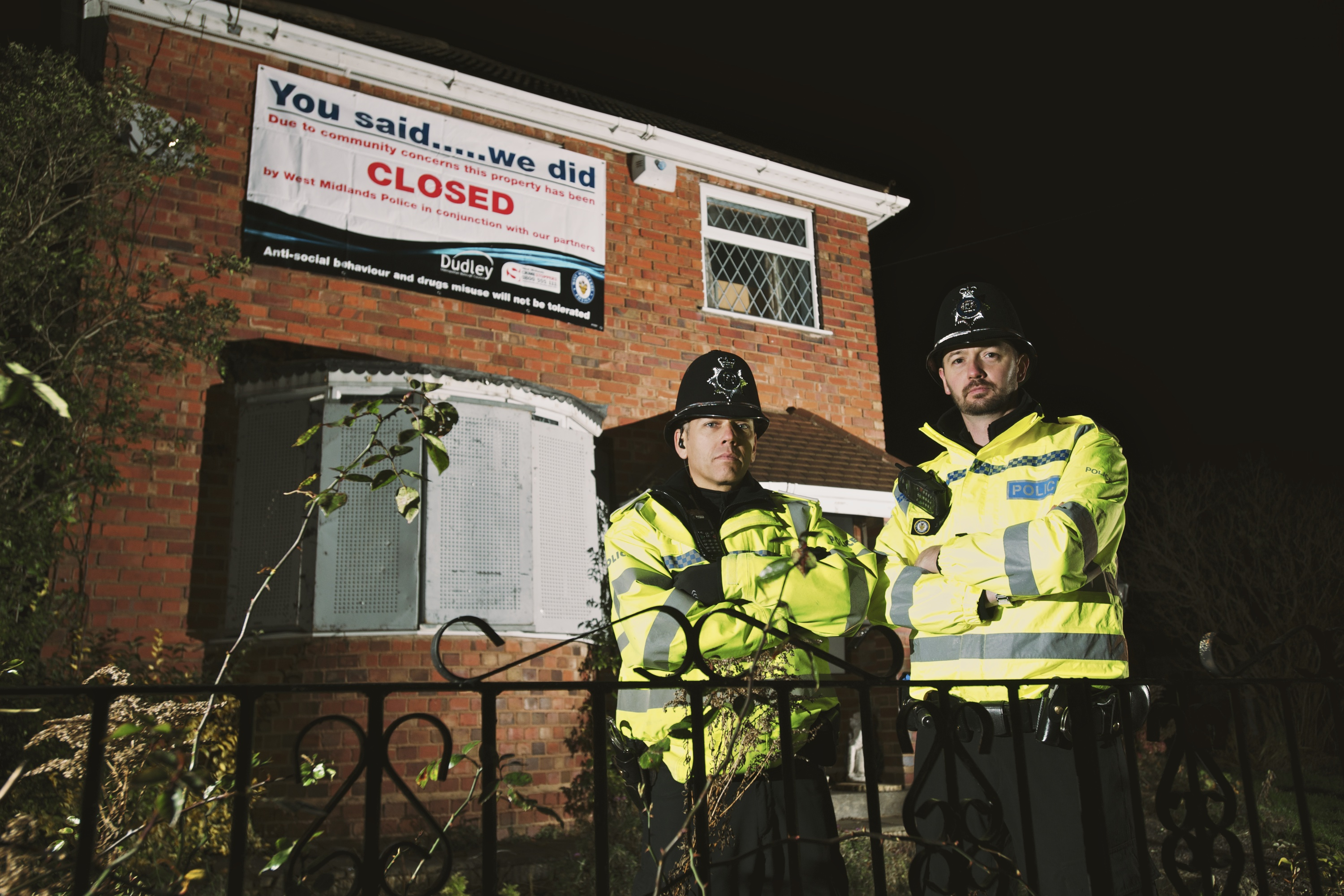 Crack houses and drug dens can cause misery to residents who have to live nearby. Police officers are always looking to close any premesis being used by drug dealers and users, and today's photo shows officers who have closed one in Brierley Hill. If anybody has any information about drug dealing in their area, you can contact your local neighbourhood team, either on 101 or by visiting the West Midlands Police website, and typing in your postcode.